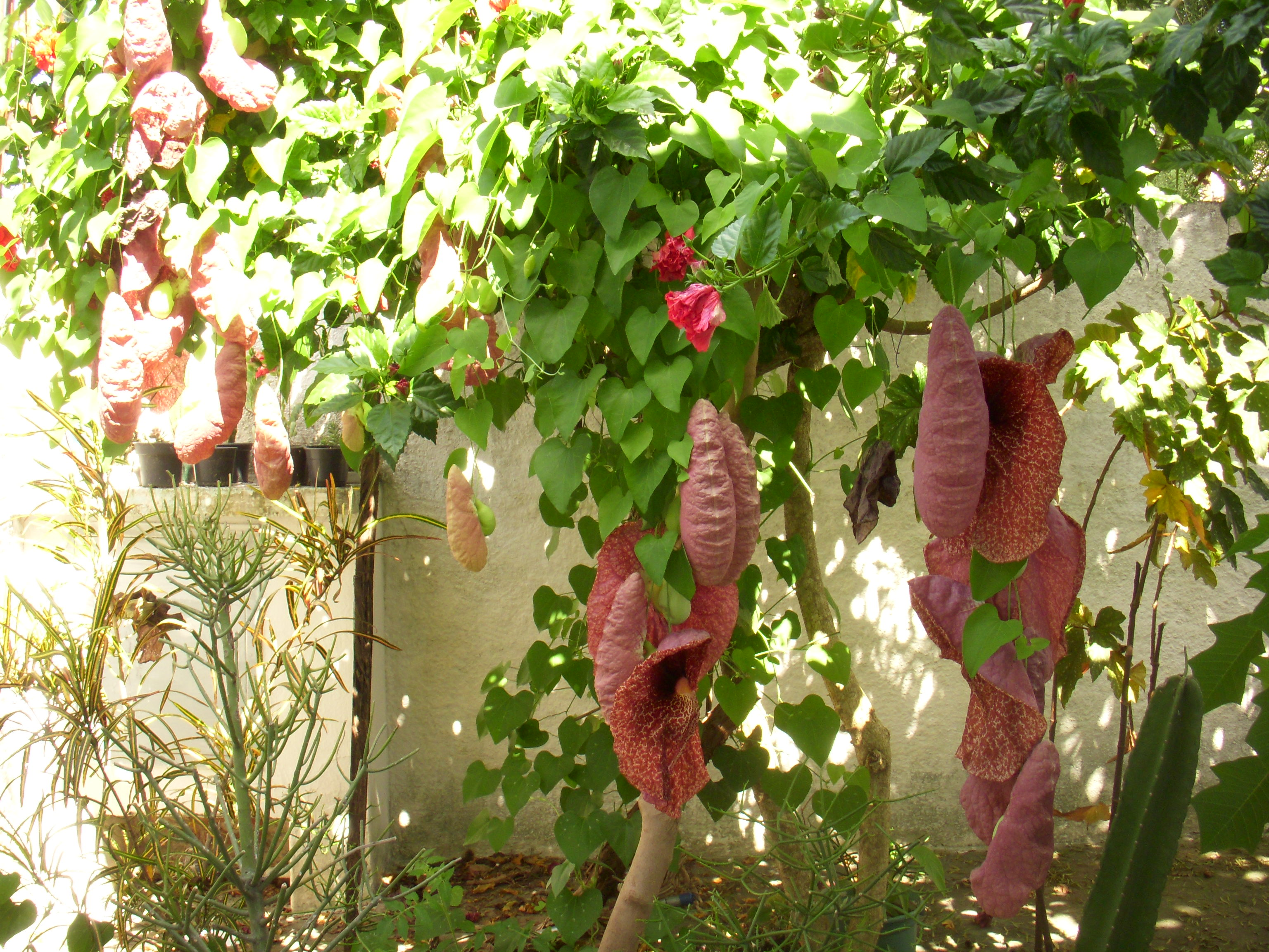 Aristolochia gigantea vine in Brazil area